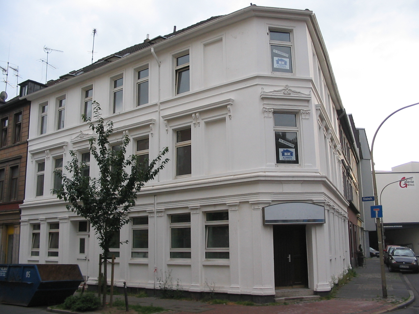 house Steinstraße 12/14 in Witten